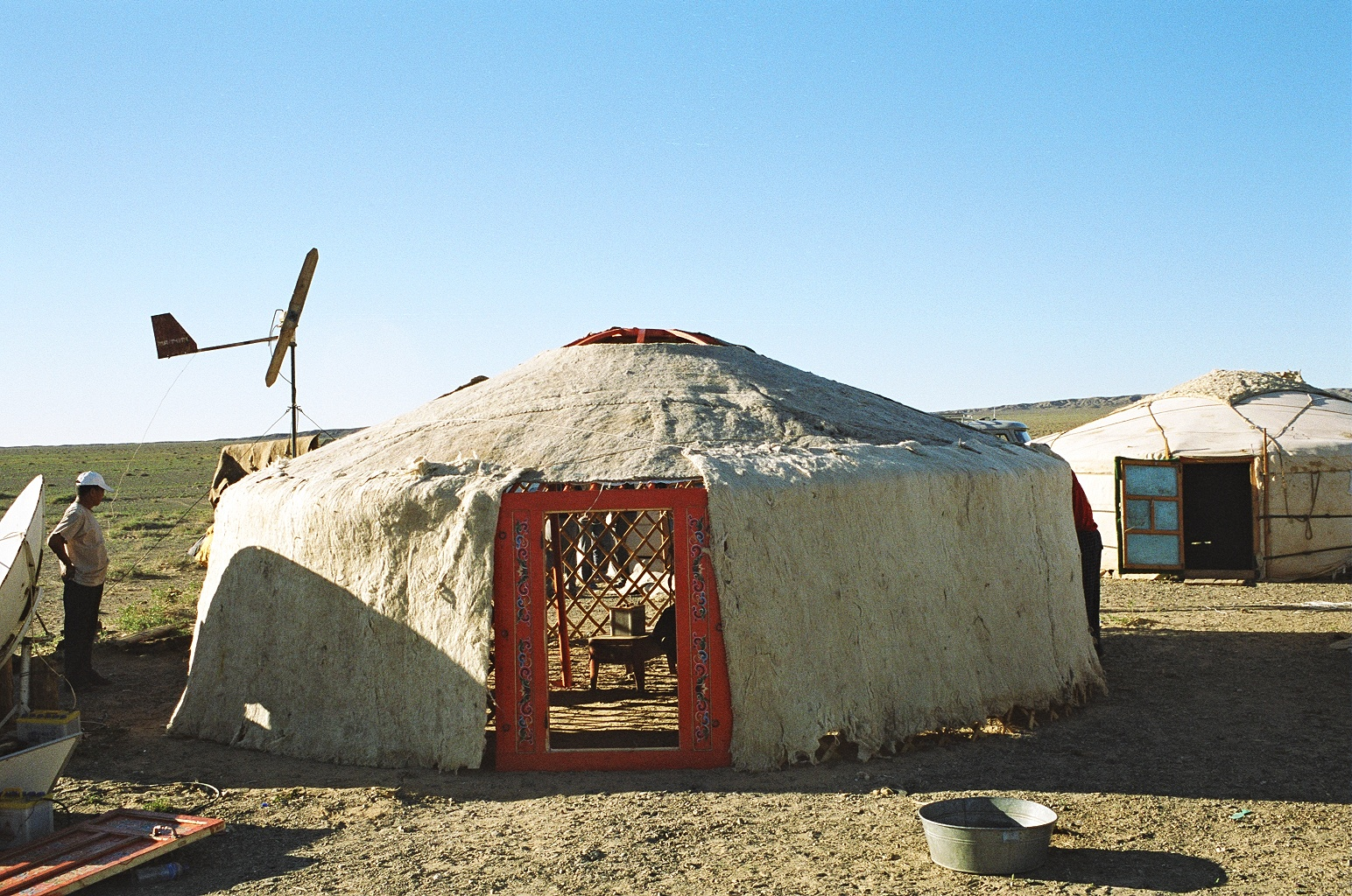 Mongolian ger: wooden framework covered with one(?) layer of felt.